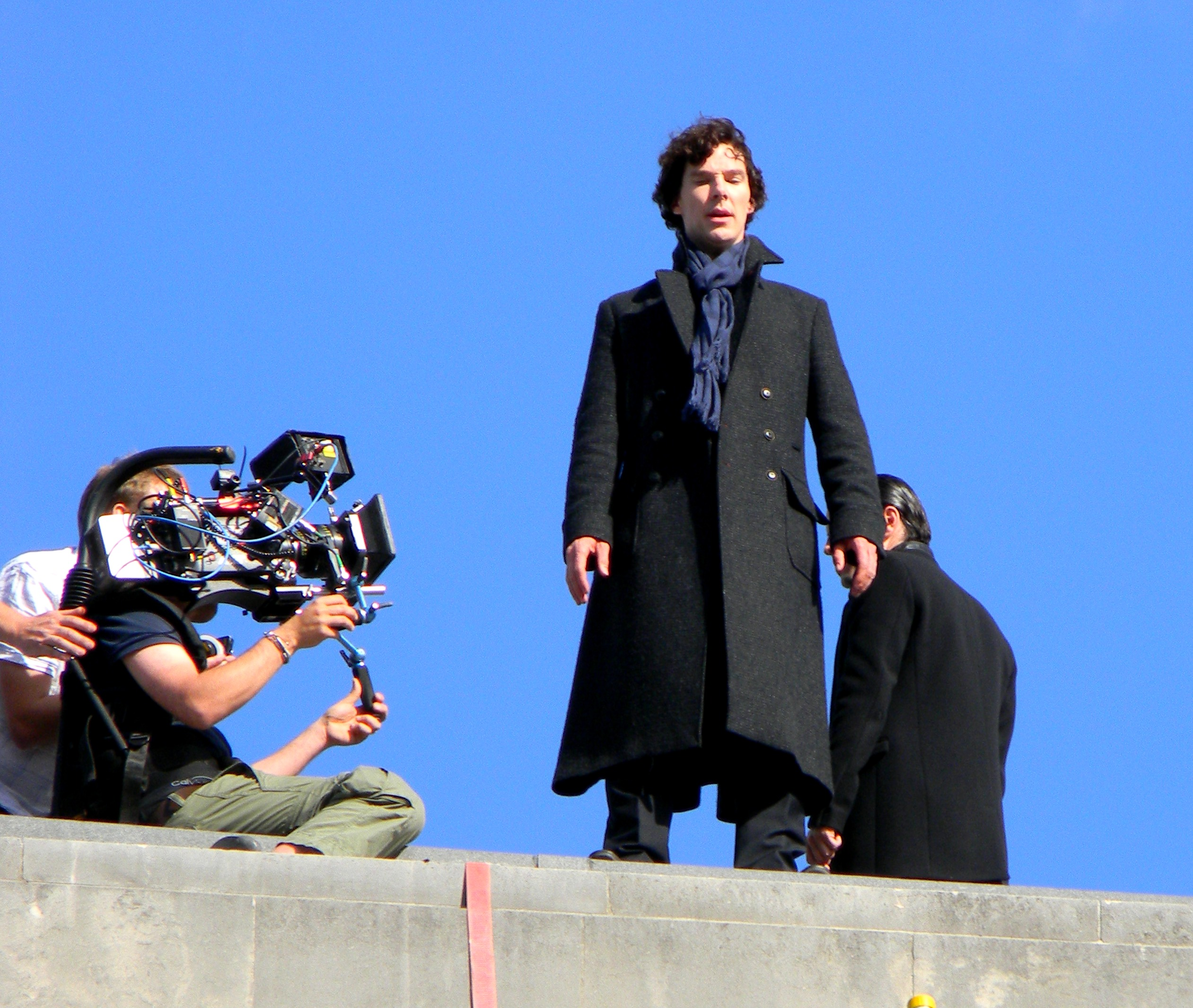 Filming the second series of "Sherlock", "The Reichenbach Fall" episode.